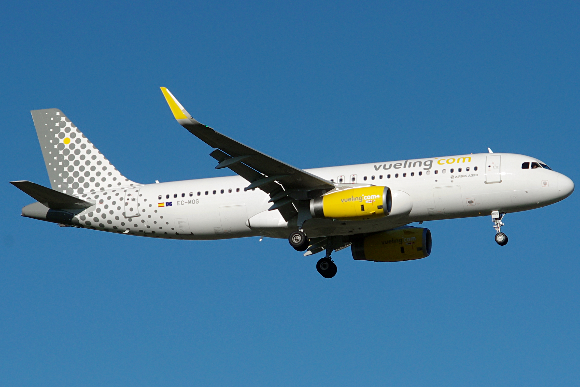 Airbus A320 of Vueling at Bilbao Airport.